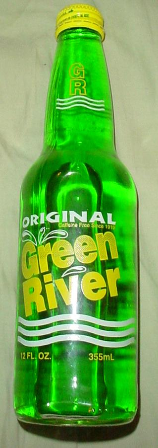 12 fl oz (354 mL) bottle of Green River